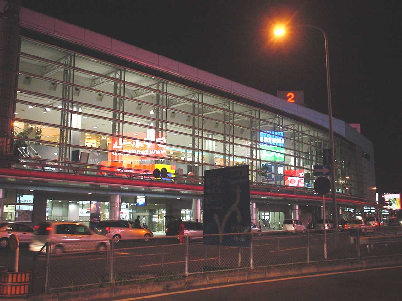 Fukuoka Airport Terminal 2 at Night